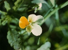 Viola arvensis 'Murray'